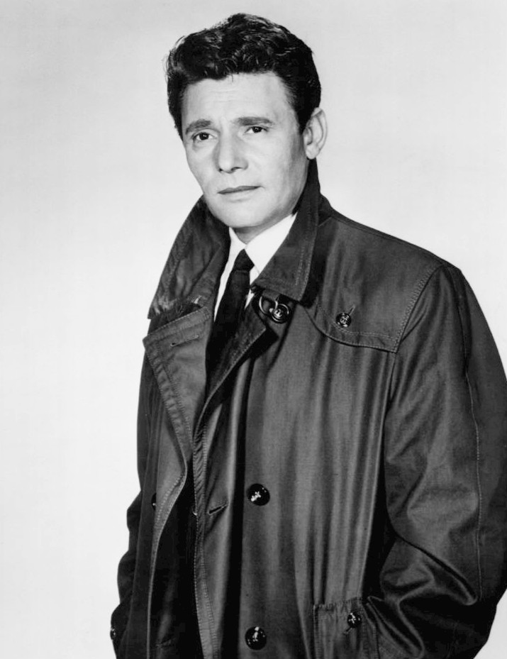 Photo of Harry Guardino as Danny Taylor for the short-lived drama television series. The Reporter.